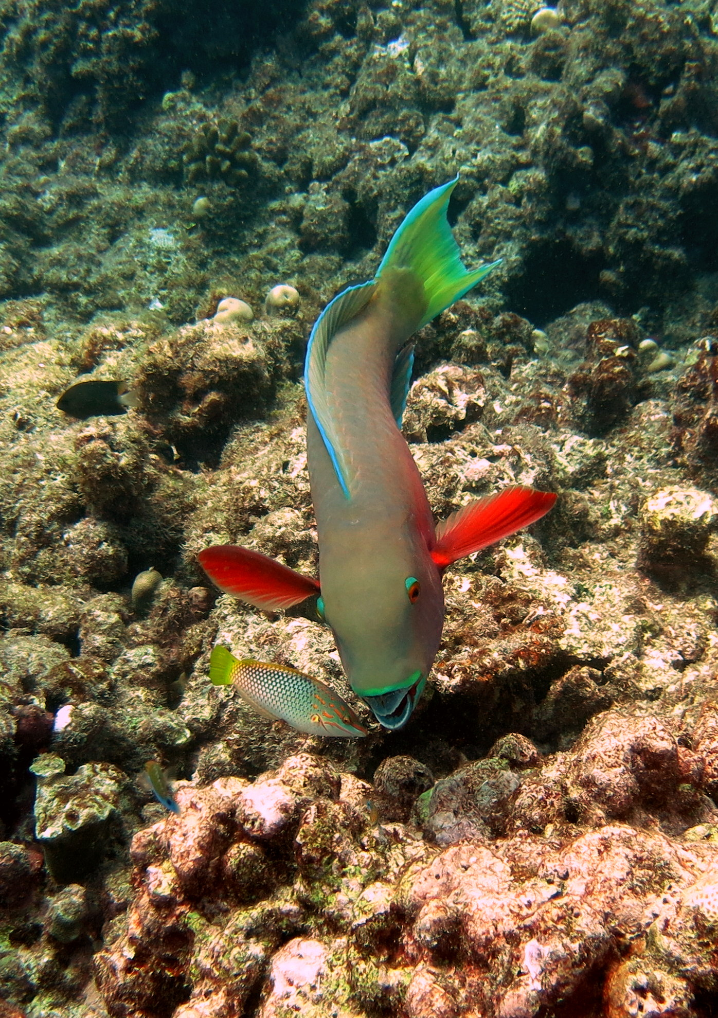 Underwater images from the Lakshadweep atolls.